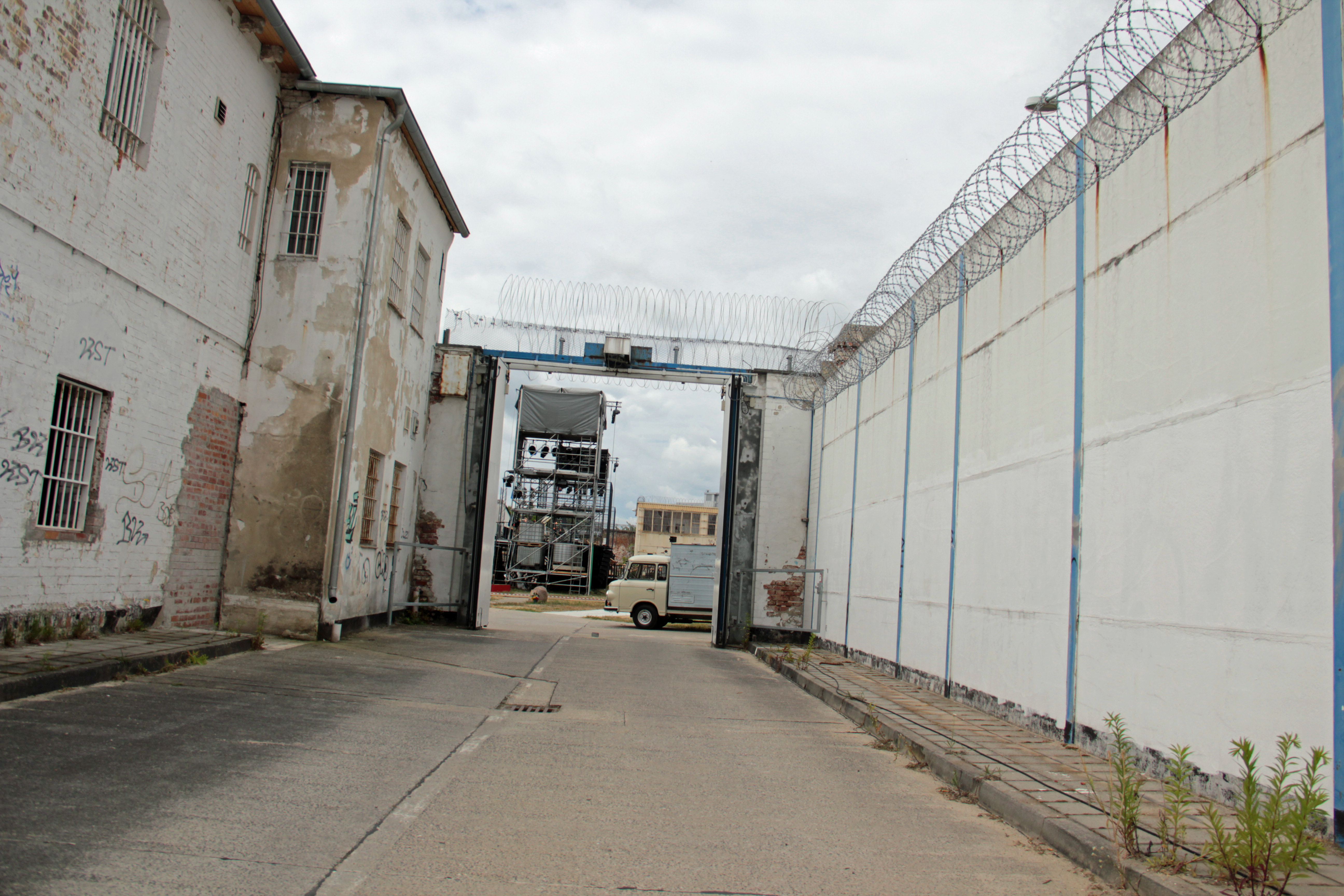 Entrance of Cottbus Prison, where political prisoners started hunger strike on 17 December 1981. The objective of the strike was to protest against imposing martial law in Poland on 13 December 1981 and to support polish Solidarity movement.